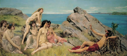 On a rocky cliff overlooking the sea, Bacchus reclines on a leopard skin, as he speaks to a choir of nymphs sitting nearby on the grass.